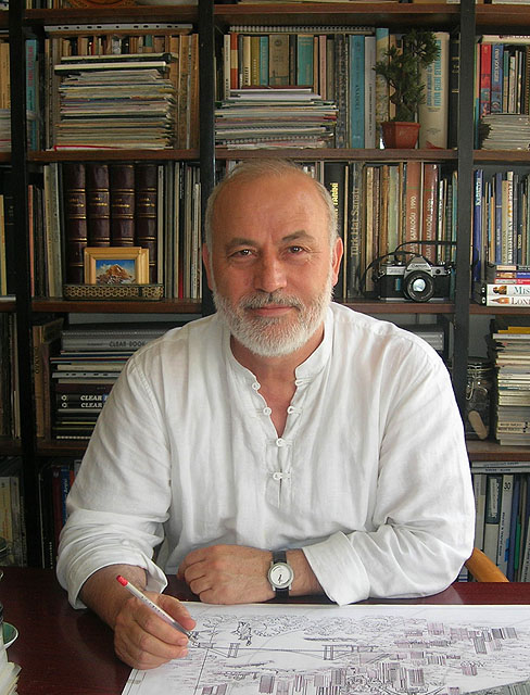 Three years before his death.